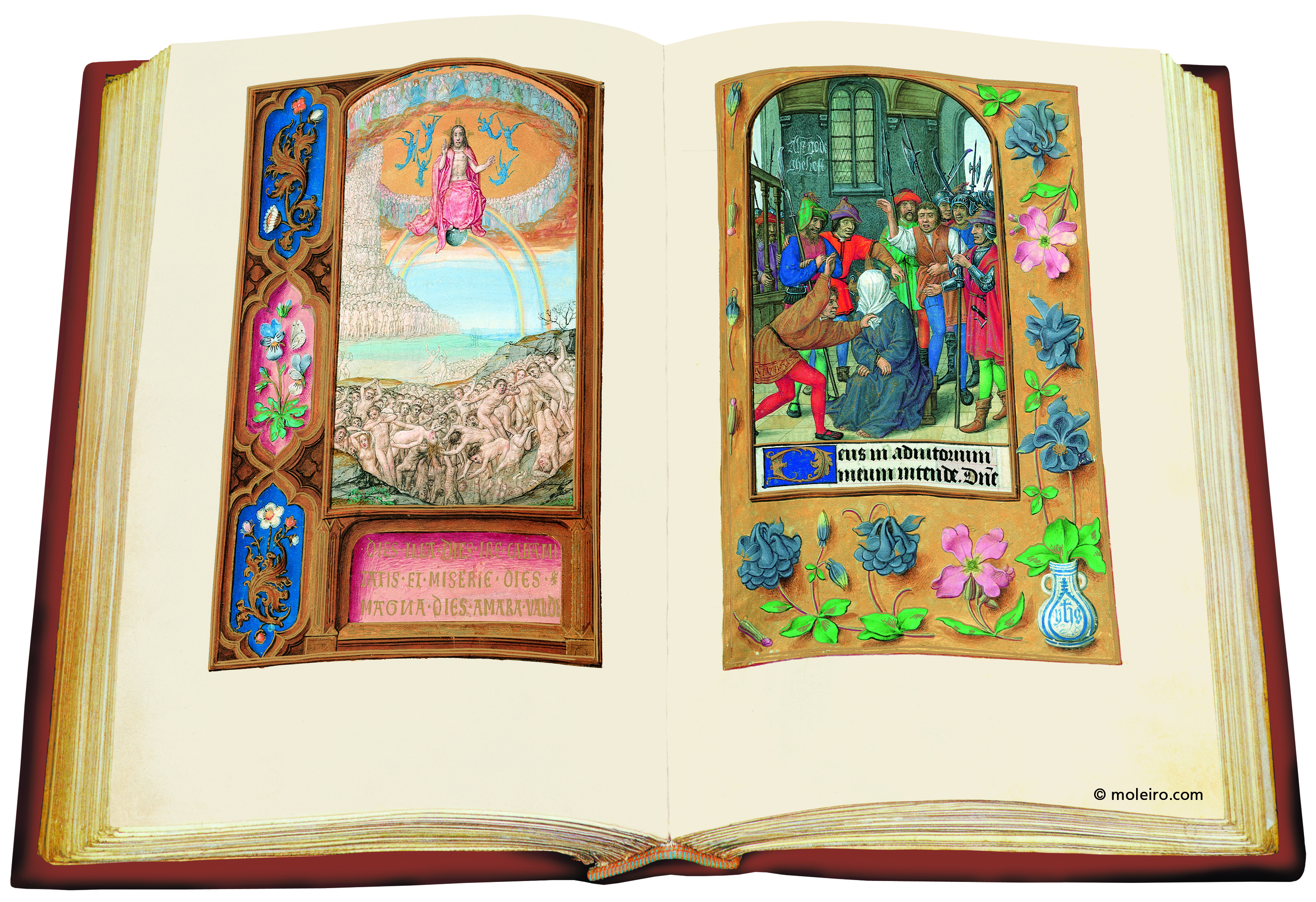 Libro de Horas de Juana I de Castilla